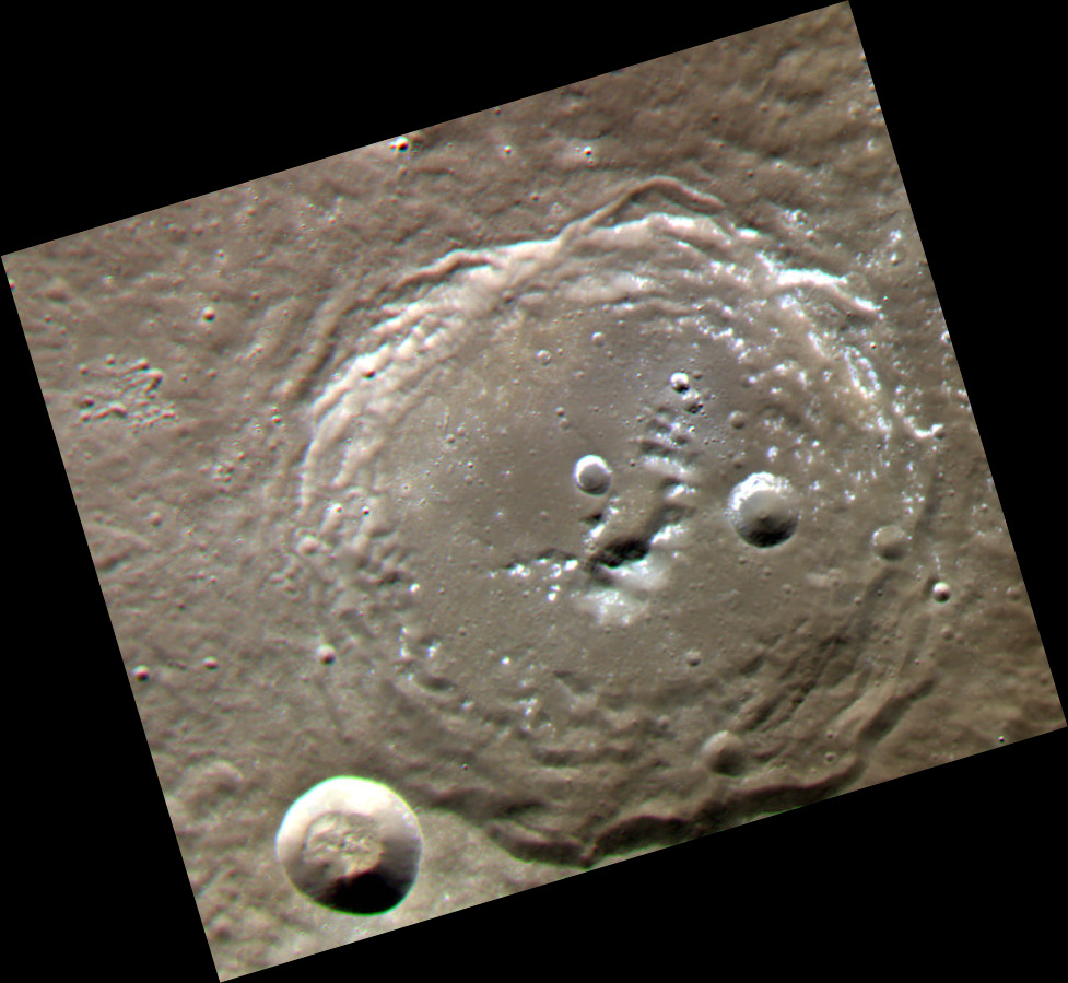 Boznańska crater on Mercury. Approximate color representation combining three images acquired by MESSENGER Wide Angle Camera (EW1005457472G, EW1005457476F, EW1005457480I) with I (996.2 nm), G (748.7 nm), and F (433.2 nm) filters. Combined in GIMP software as RGB (Red-Green-Blue), and then rotated so that north is up. Statistics for I image: Emission Angle: 0.5 Incidence Angle: 61.1 Latitude: 60.0 Longitude: 318.9 Phase Angle: 60.6